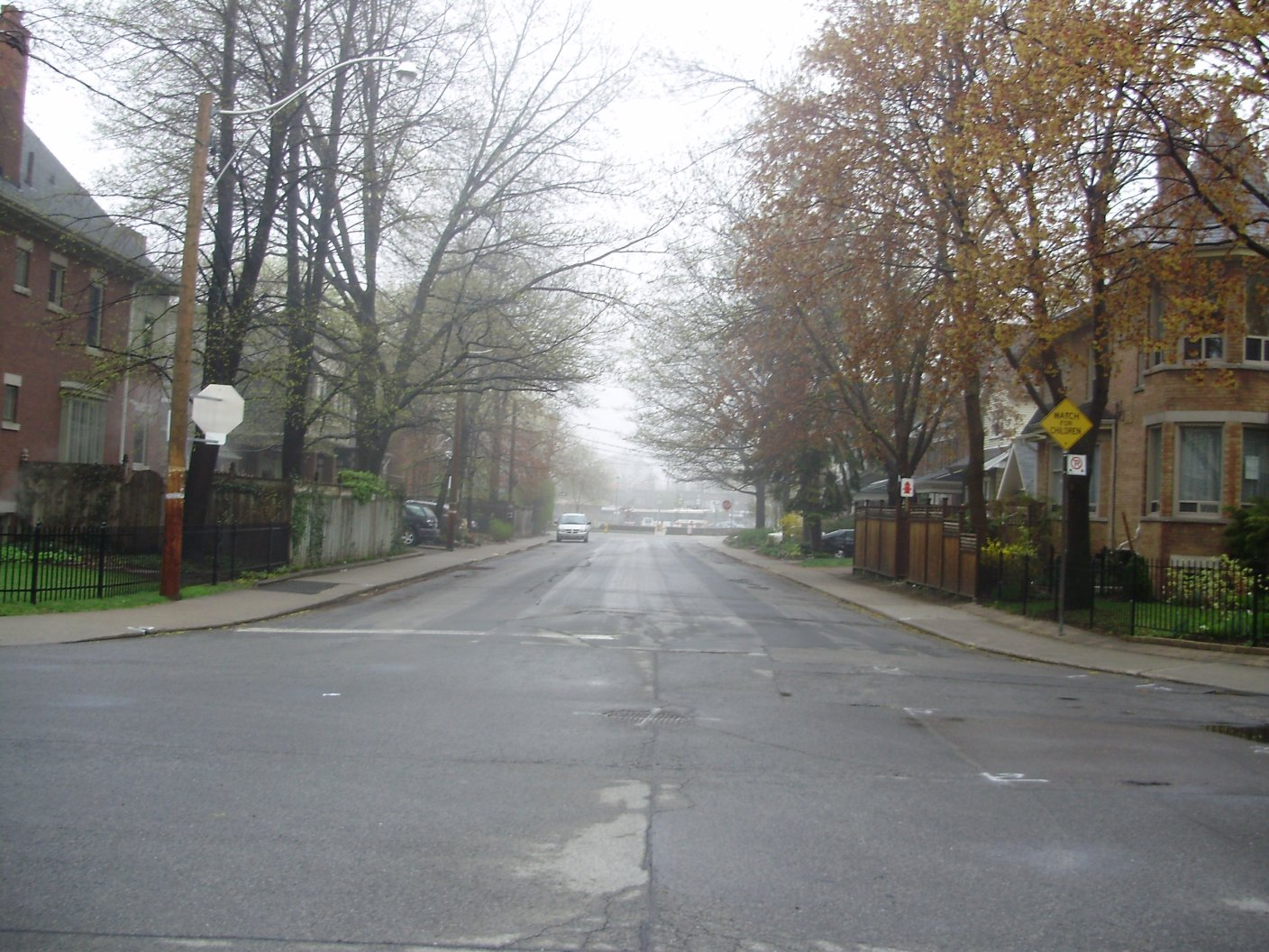 Looking east down Hurndale Avenue in Toronto's Playter Estates.